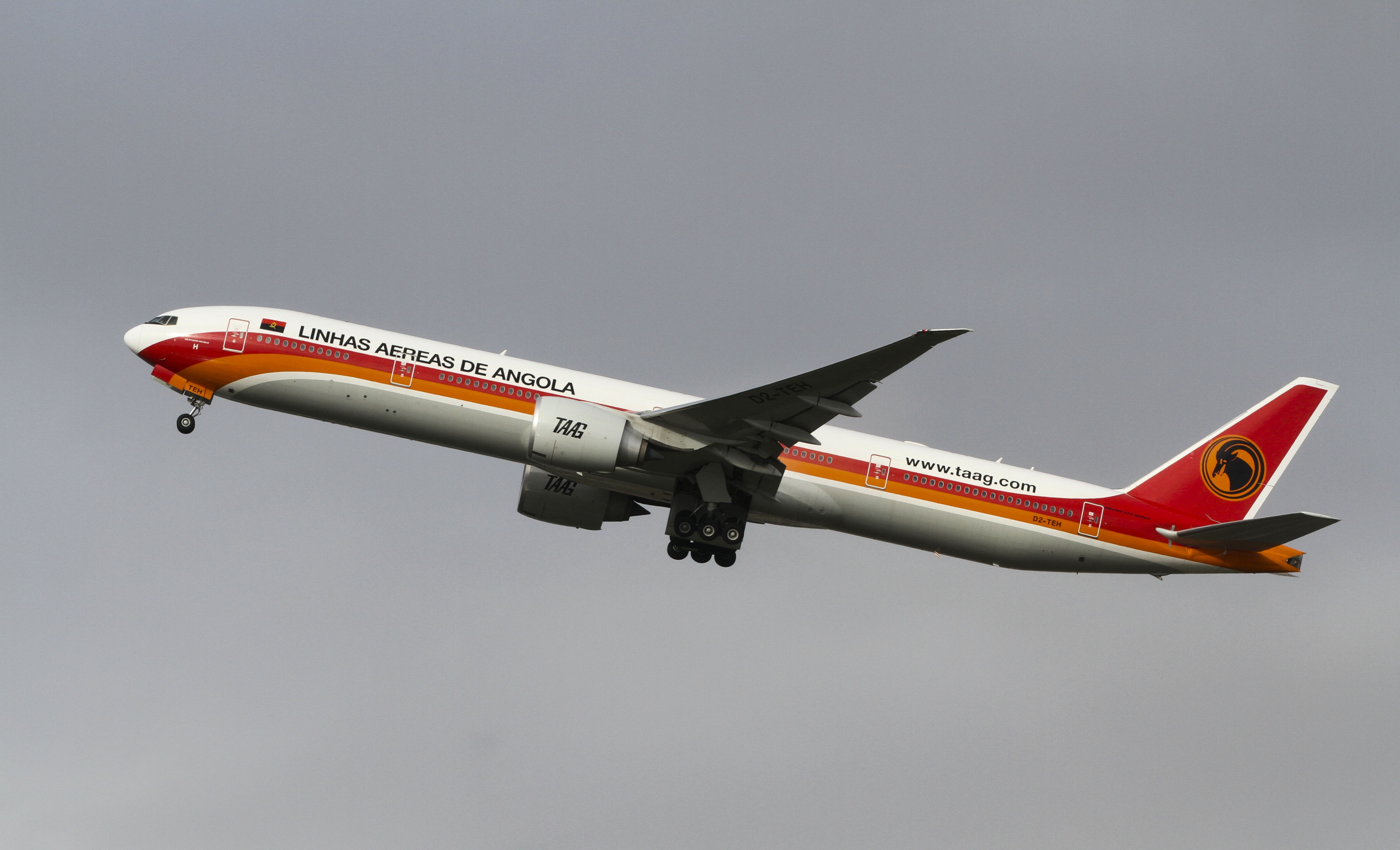 TAAG Angola Airlines Boeing 777-3M2ER takes off at Lisbon Portela Airport, December 4th, 2012